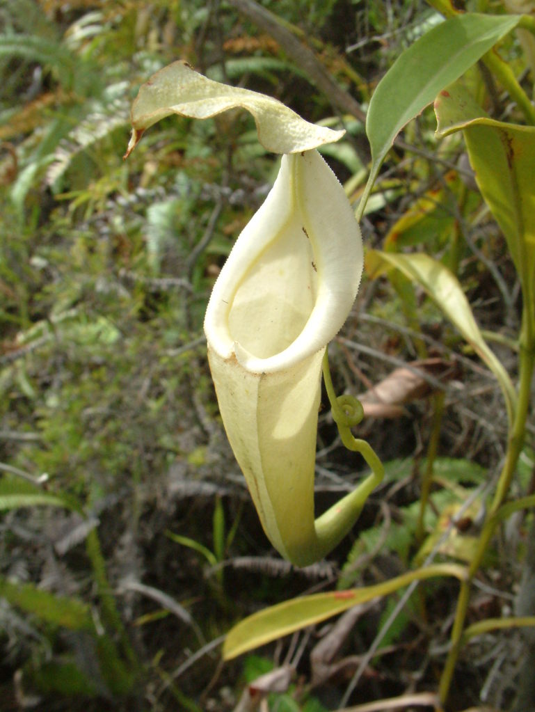 Nepenthes maxima from Sulawesi (400 m altitude)